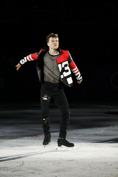 Gala exhibition at the 2018 Winter Olympics